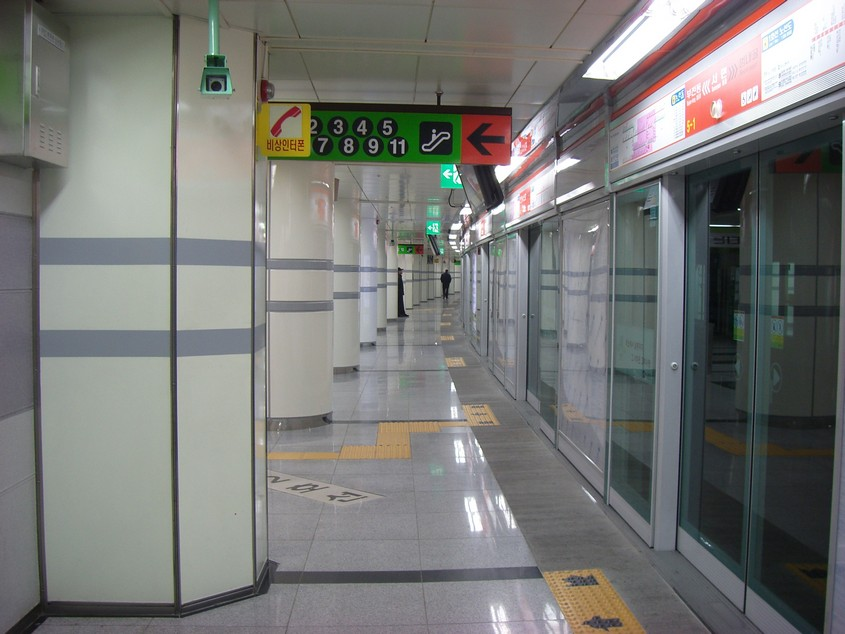 Seomyeon Station